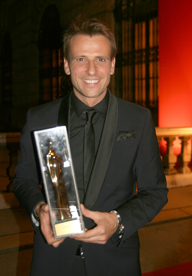 Volker Piesczek at the Romy TV awards (Hofburg Imperial Palace in Vienna)